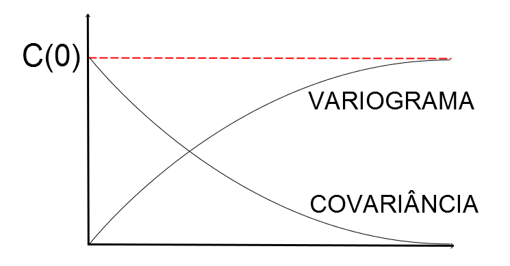 Visual comparison of a variogram model and the same model for the covariance function.